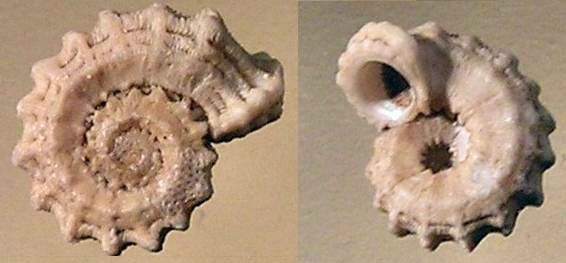 Austroliotia botanica Hedley, 1915, a sea snail in the family Liotiidae; Australia